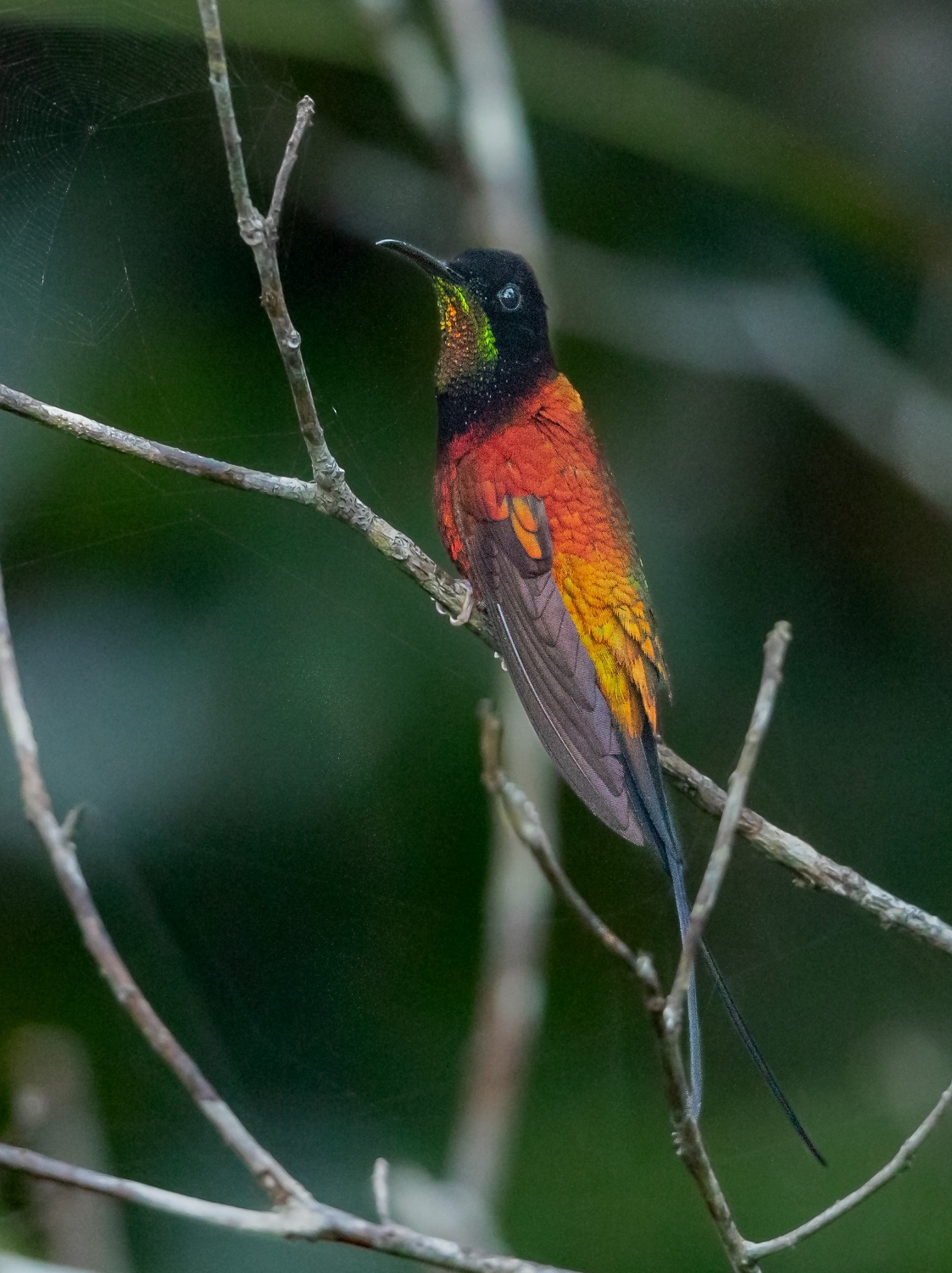 Fiery Topaz (male); Manacapuru, Amazonas, Brazil